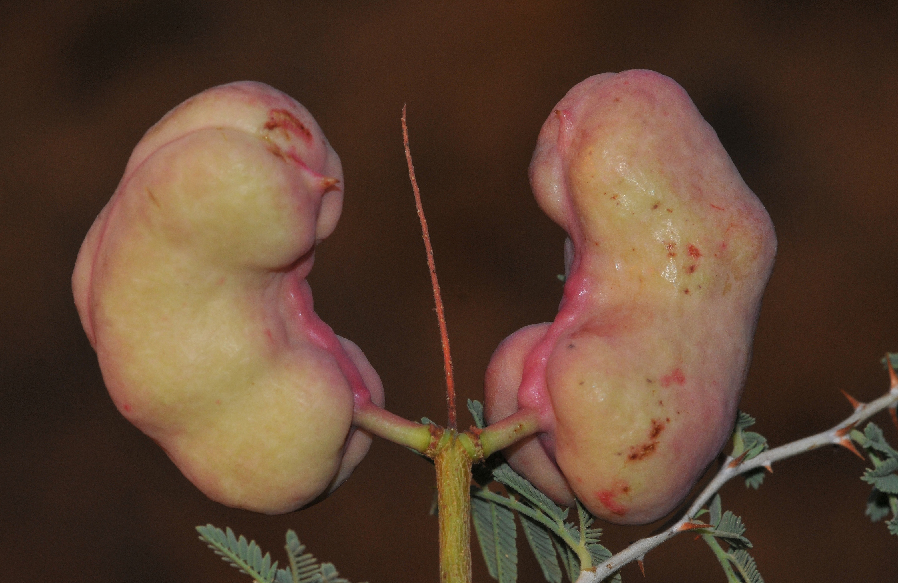 Prosopis farcta